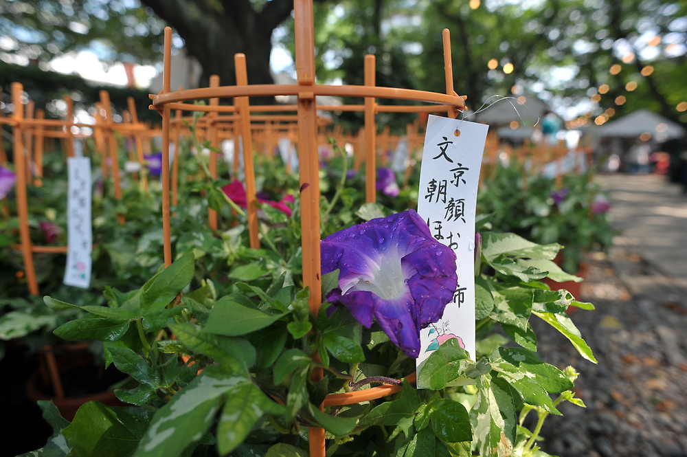 The 23rd Bunkyo ward's 'morning glory' (asagao) and 'ground cherry' (hoozuki) festival, held 19-20 July 2008. Details of this event are here.